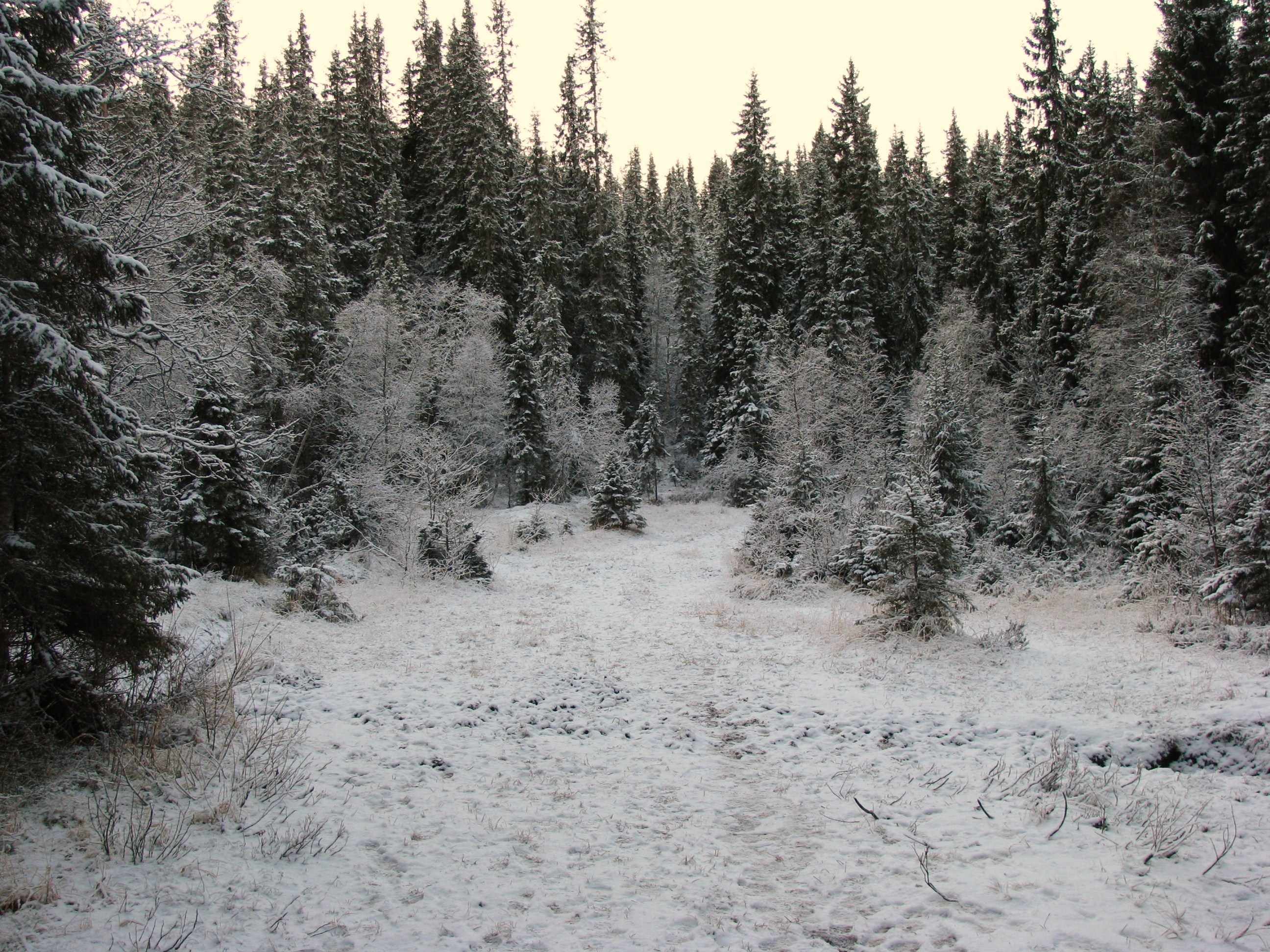 Norwegian boreal forest in early winter. At some 350 meter (1100 ft) above sea level in the hills near Trondheim (Norway) the spruce trees are slim and grows in a spike shape, common in taiga forest.